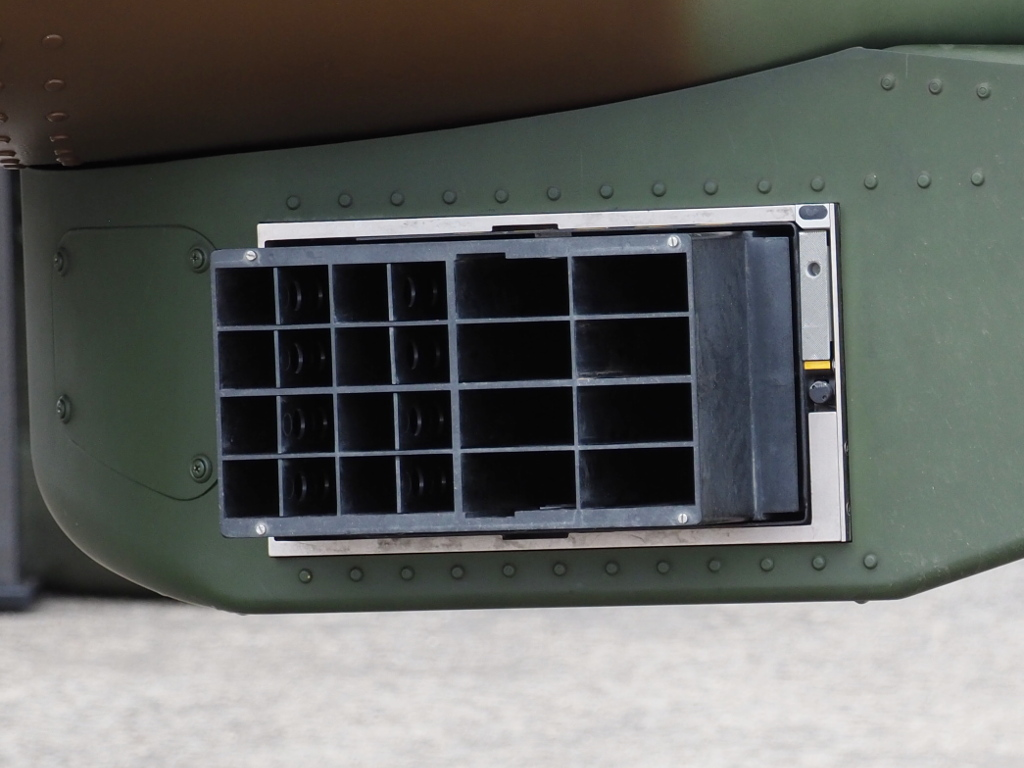 Cartridge dispenser module of decoying self-protection system MBDA Saphir-M mounted on a french Eurocopter Tiger below tail, German Armed Forces Day, Fassberg 2019